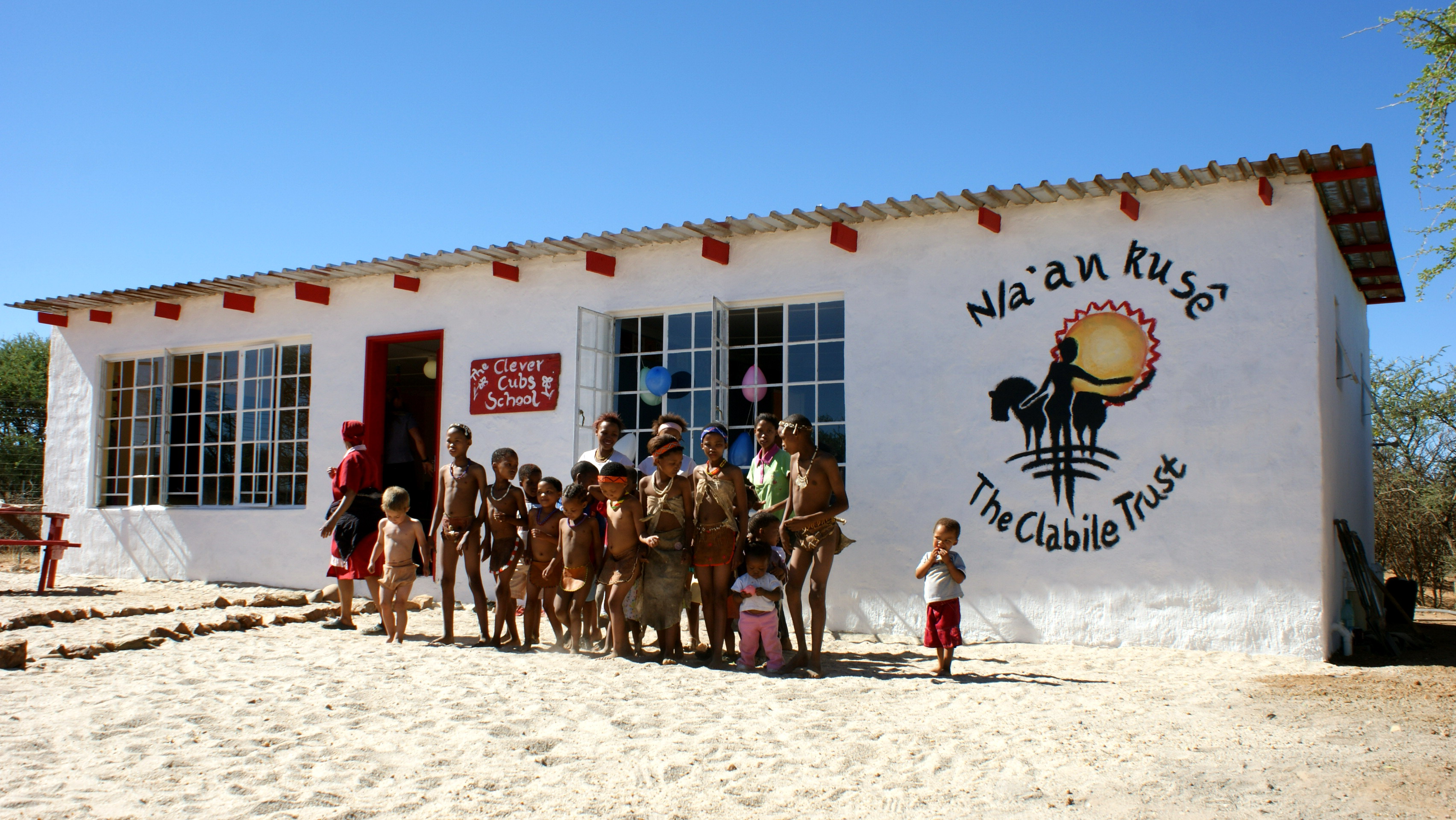 Opening of Naankuse Clever Cubs School, Namibia